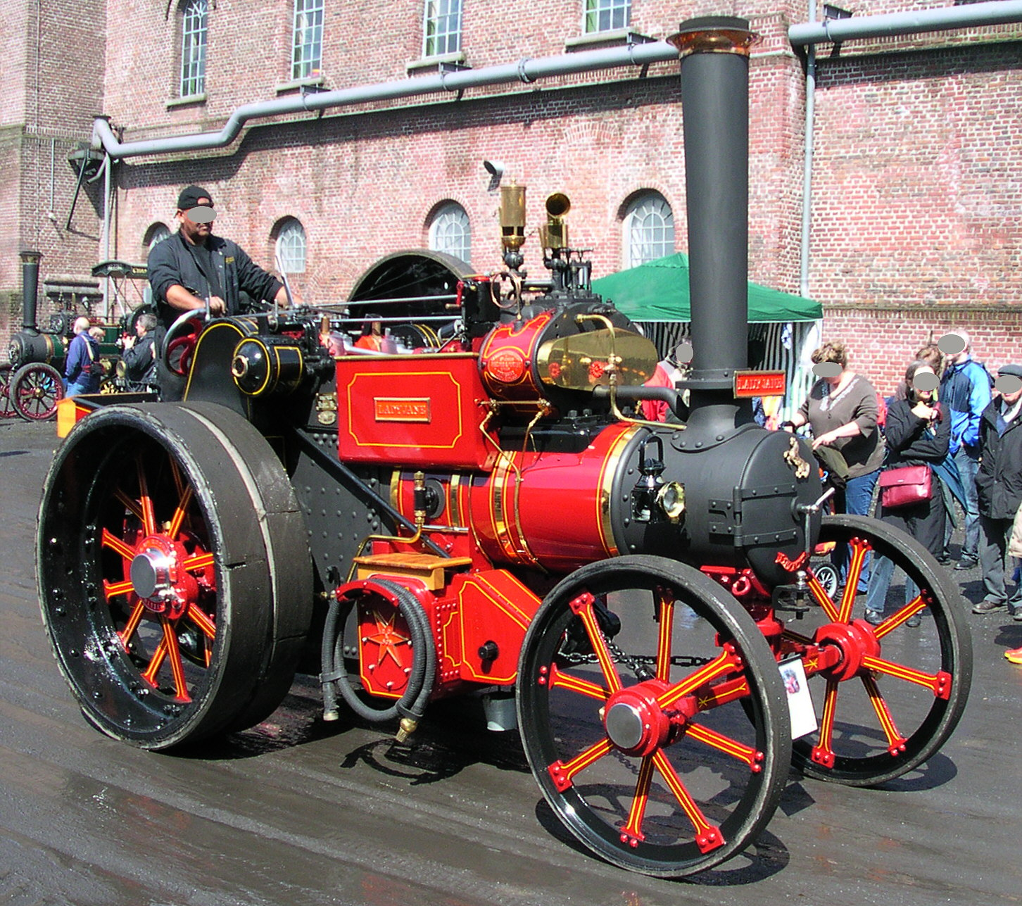 5th steam festival in Bochum, Germany 2007. Aveling & Porter steam roller “Lady Jane”